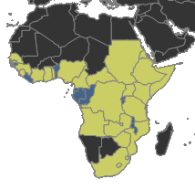 Distribution map of Megaponera analis